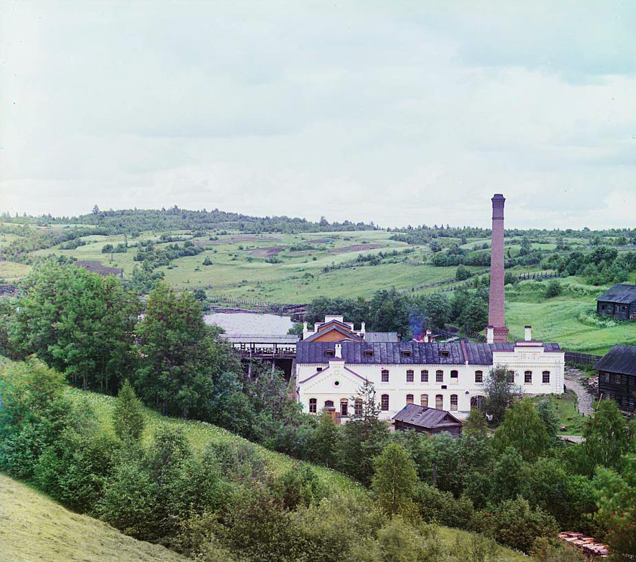 Teifel cardboard factory in the village of Uslanka